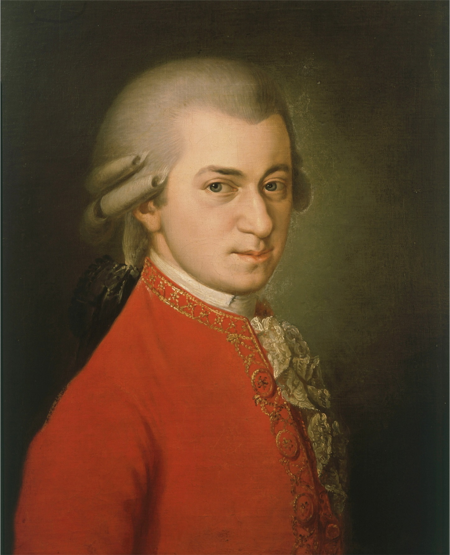 Posthumous portrait of Mozart (1756–91); commissioned by Joseph Sonnleithner (1776–1835) for the Gesellschaft der Musikfreunde (Society for the Friends of Music) in Vienna